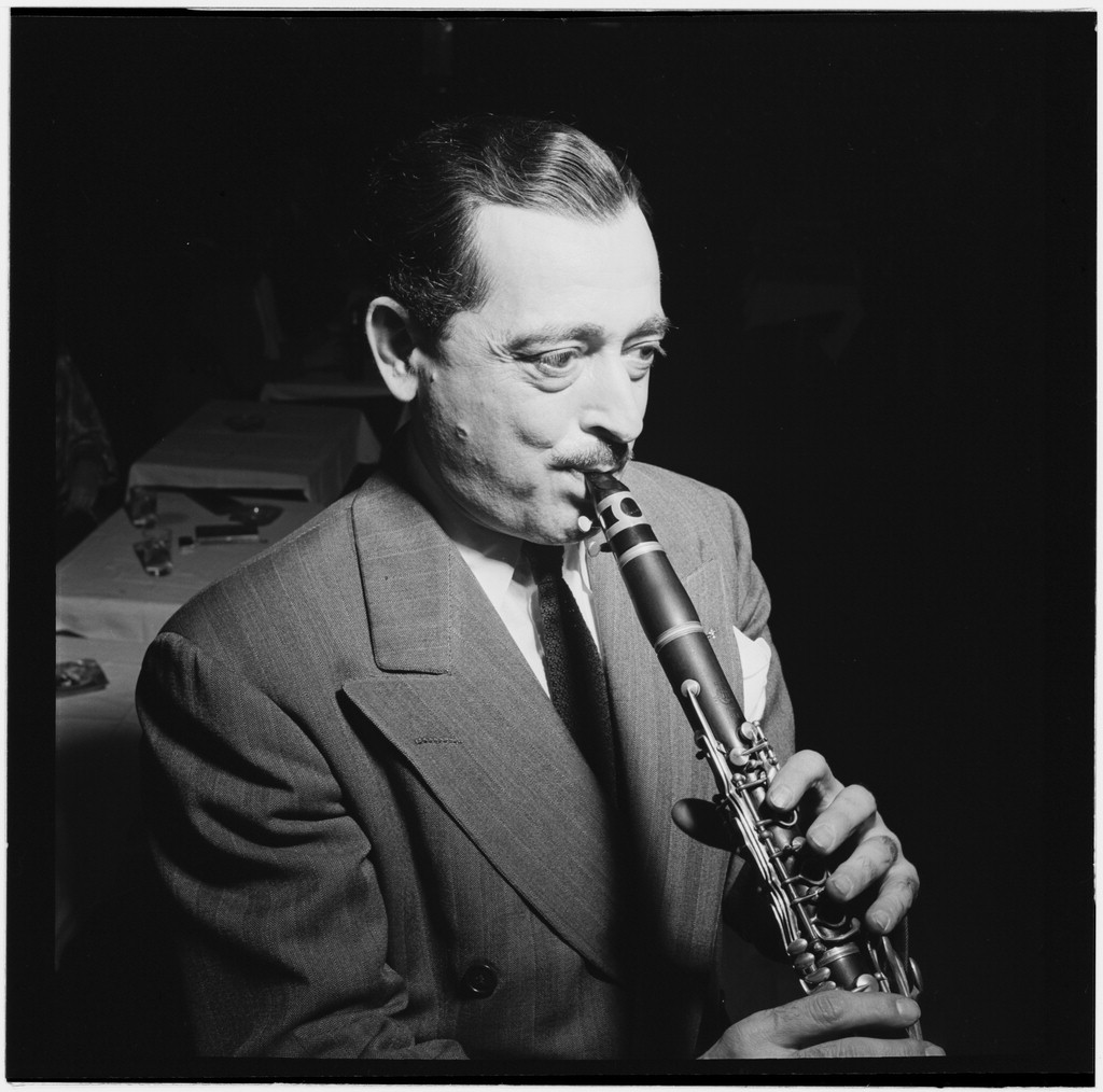 Tony Parenti, Jimmy Ryan's (Club), New York, N.Y., ca. Aug. 1946 (Photograph by William P. Gottlieb)